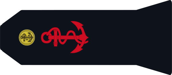 Shoulder strap of the French Navy